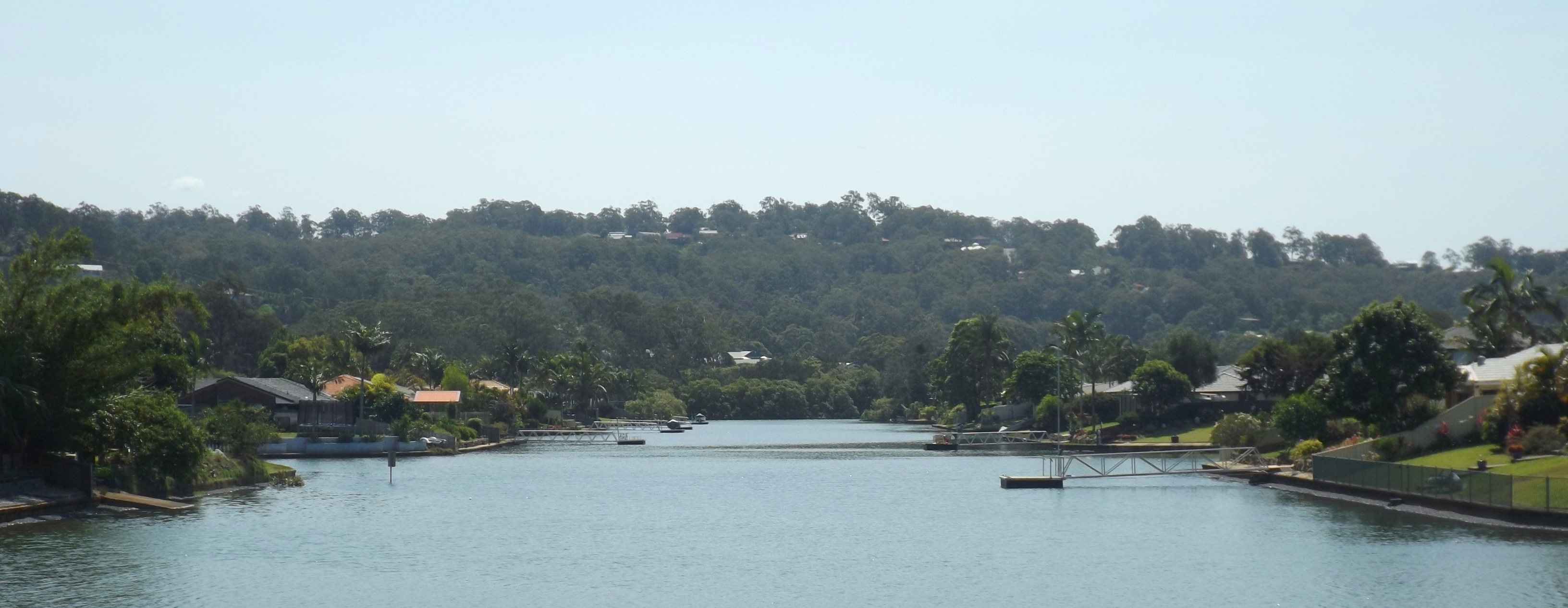 Photo of Currumbin Creek canals in Currumbin Waters, Gold Coast City, Queensland, Australia.